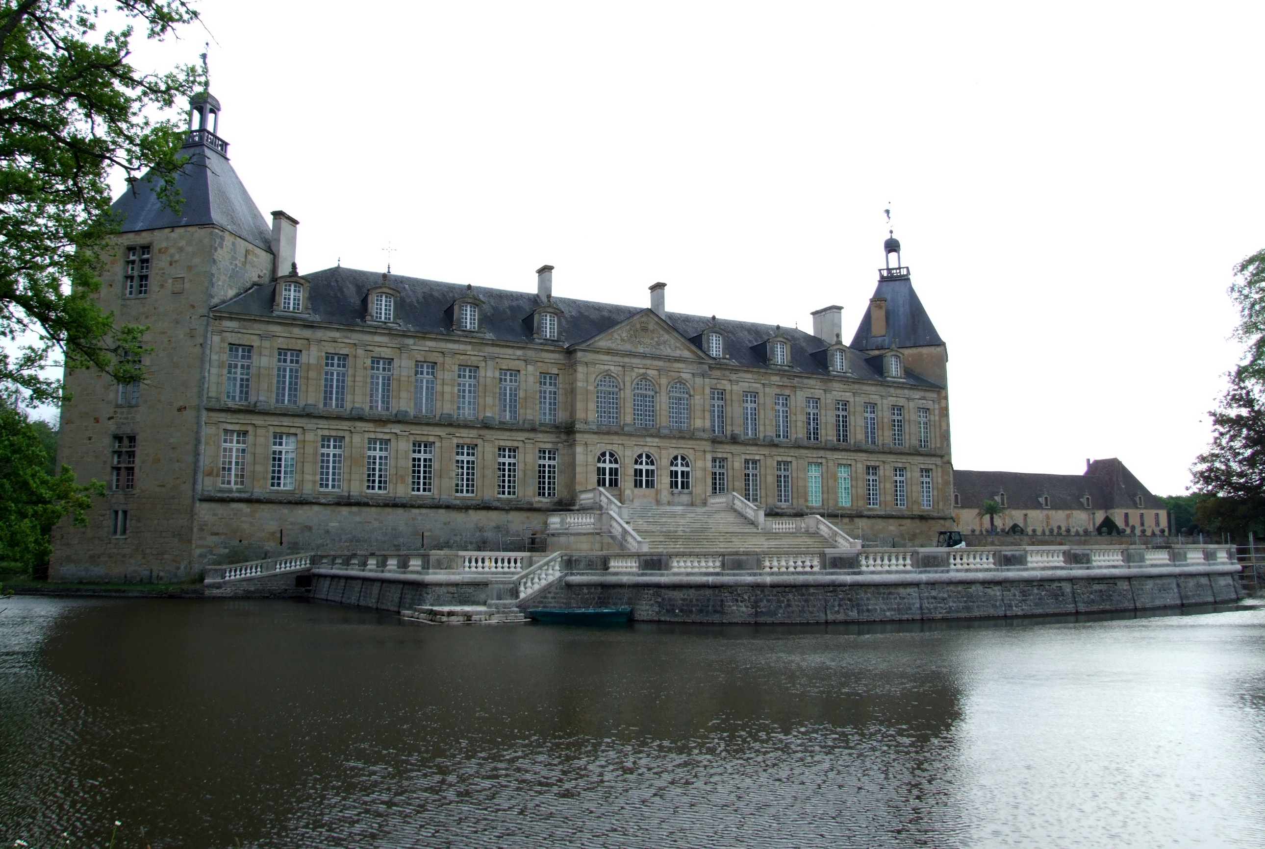 Sully Castle, Sully, Saone et Loire, Burgundy, FRANCE